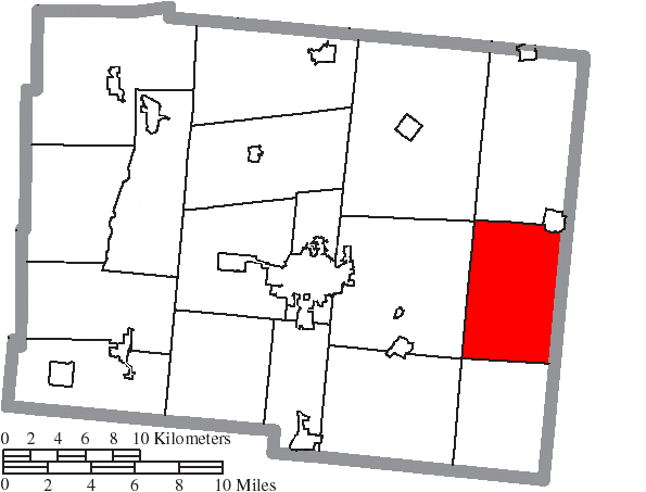 Map of the municipal and township boundaries of Logan County, Ohio, United States, as of the 2000 census, with the location of Perry Township highlighted. Township borders are shown only in unincorporated areas in order to differentiate incorporated and unincorporated areas more clearly.